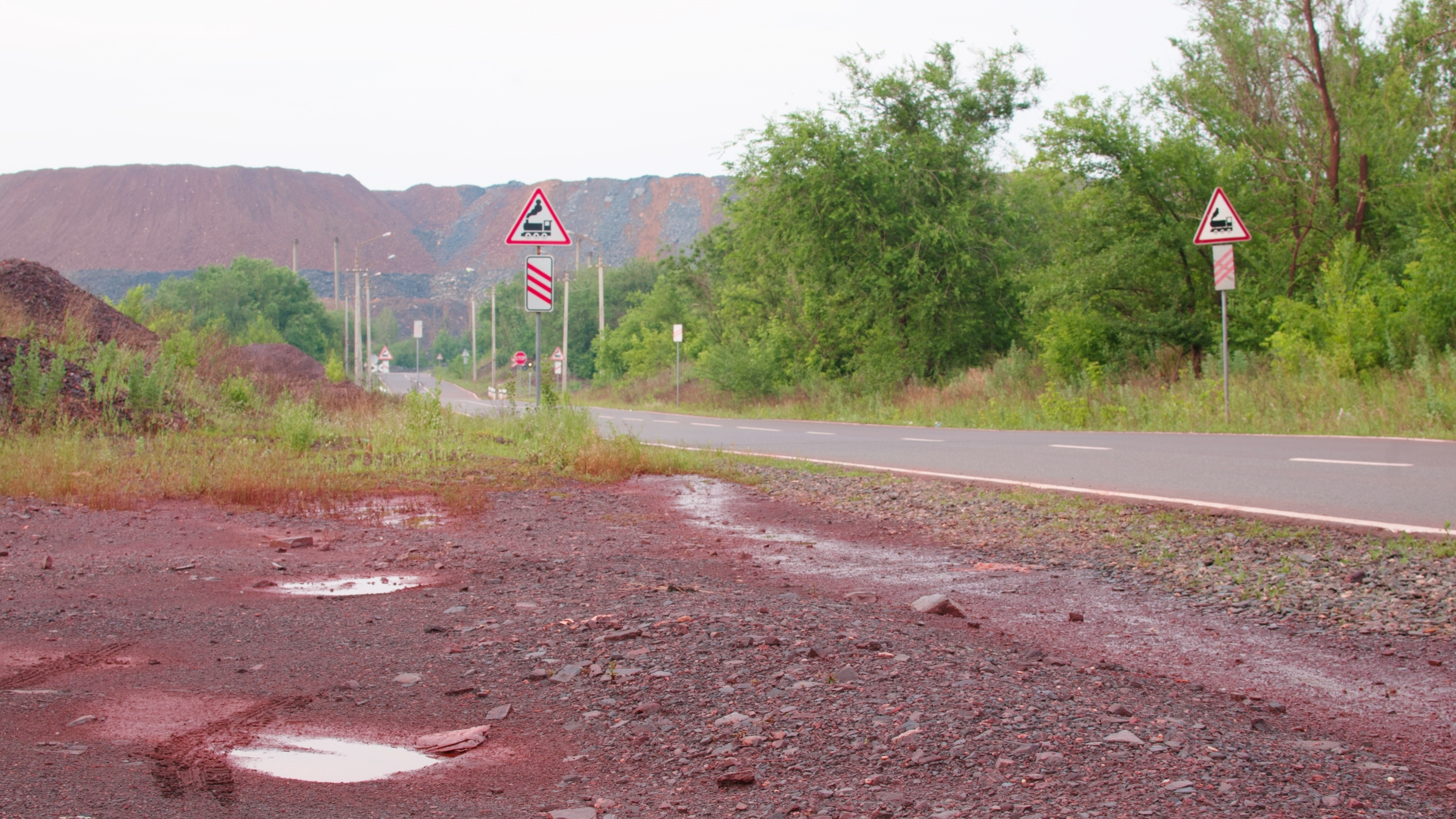 kryvyi rih roads and signs